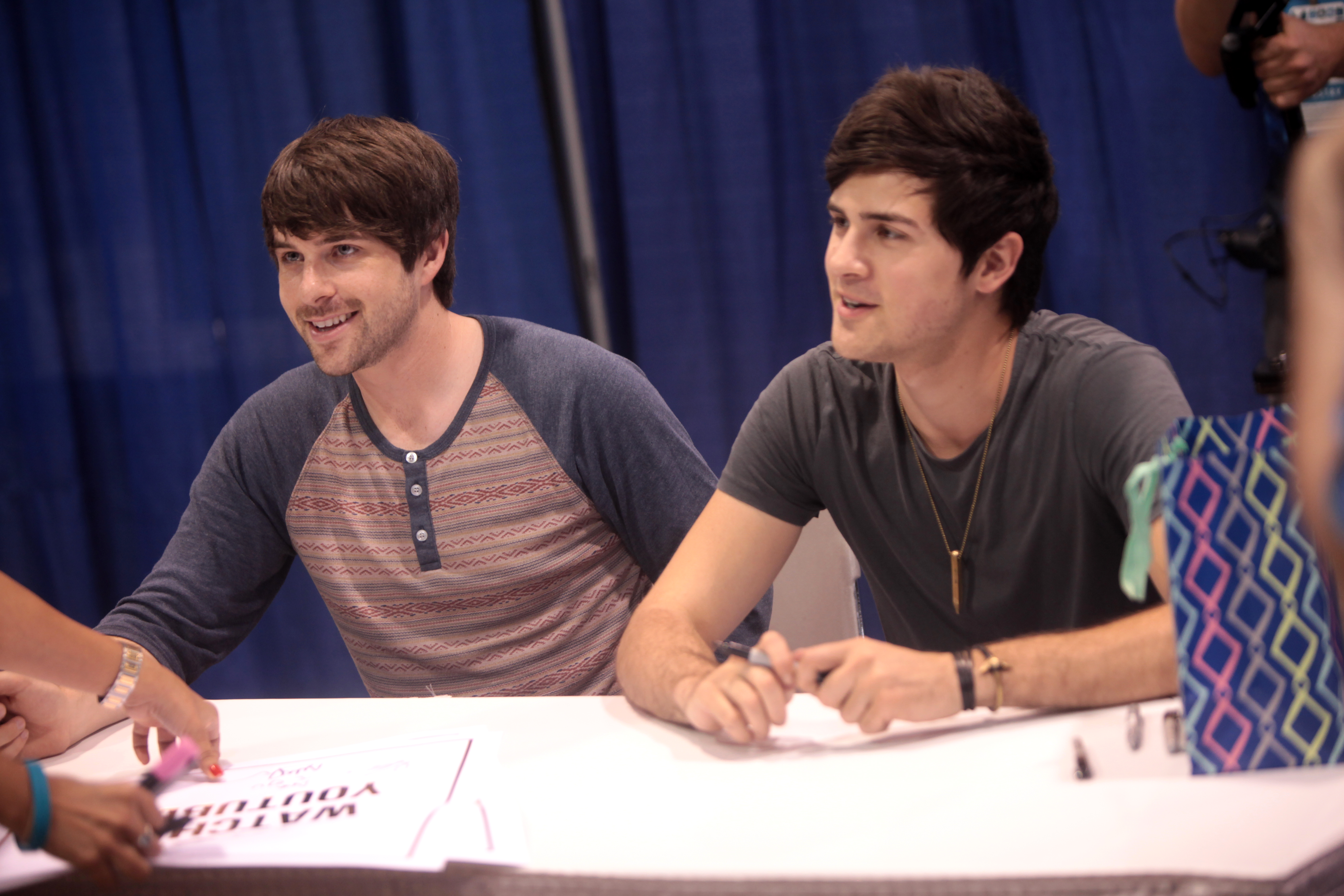 Ian Hecox and Anthony Padilla of Smosh speaking at the 2014 VidCon at the Anaheim Convention Center in Anaheim, California.